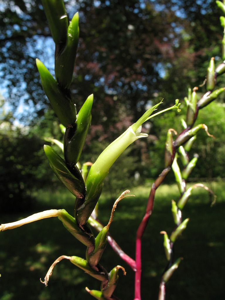 Tillandsia limbata in cultivation at the Botanical Garden of Heidelberg, Germany.